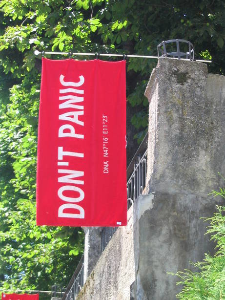 Towel with writing "Don't Panic" (in Innsbruck)